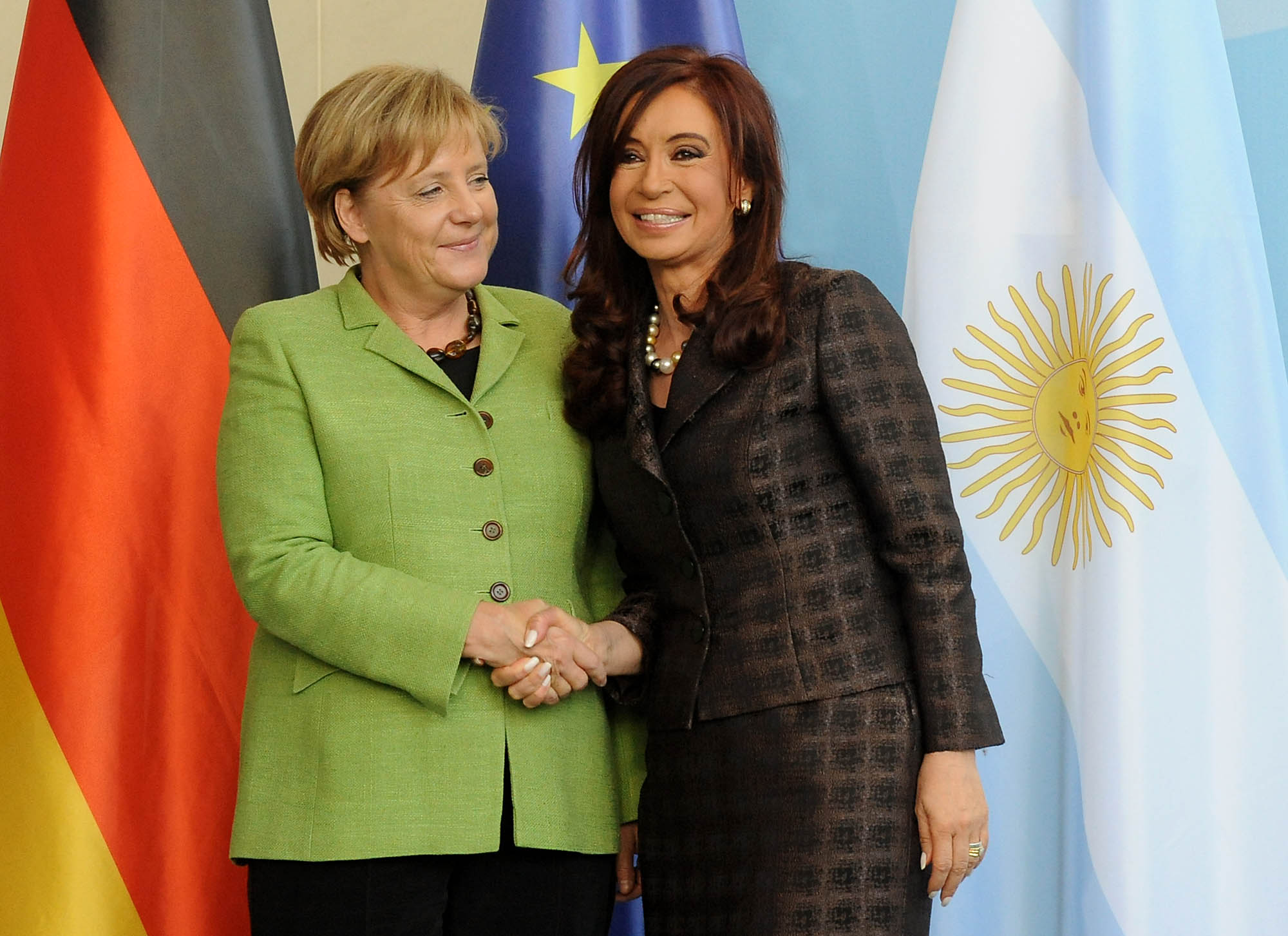 President of Argentina Cristina Fernandez and Chancellor of Germany Angela Merkel at Berlin